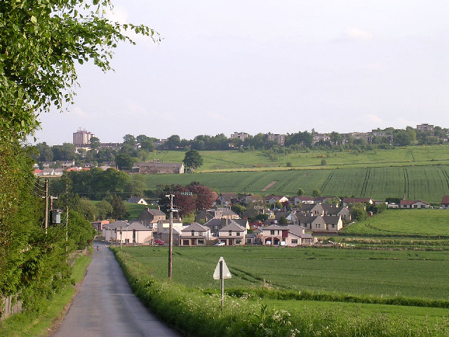 Bridgefoot, near Dundee. The original village at Bridgefoot developed around a number of mills on the River Dighty. Modern housing has considerable expanded the settlement in recent years bringing it ever closer to the spreading suburbs of northern Dundee (visible in the top of the photo).